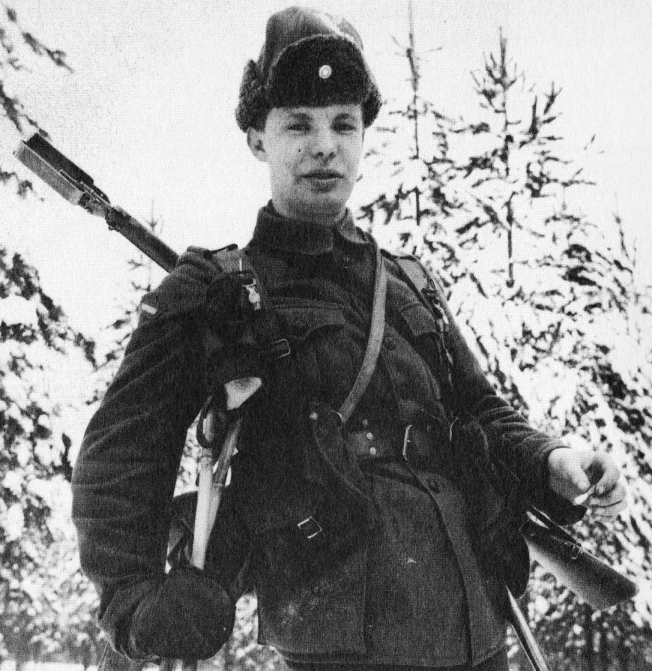 Photograph of the Finnish National Conciliator to be, Jorma Reini (1942–1998), during his military service.